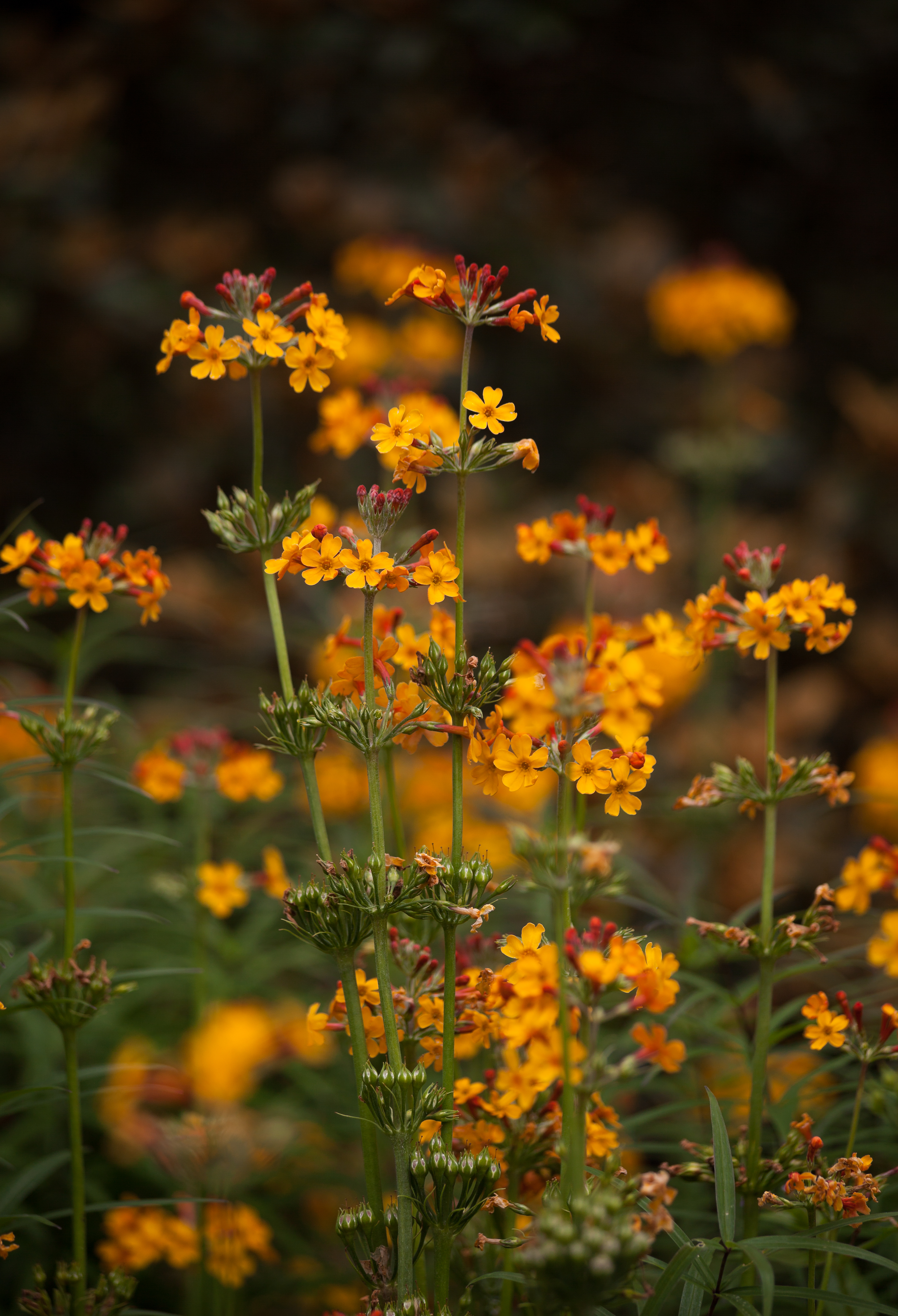 Primula bulleyana at the Royal Botanic Garden Edinburgh.